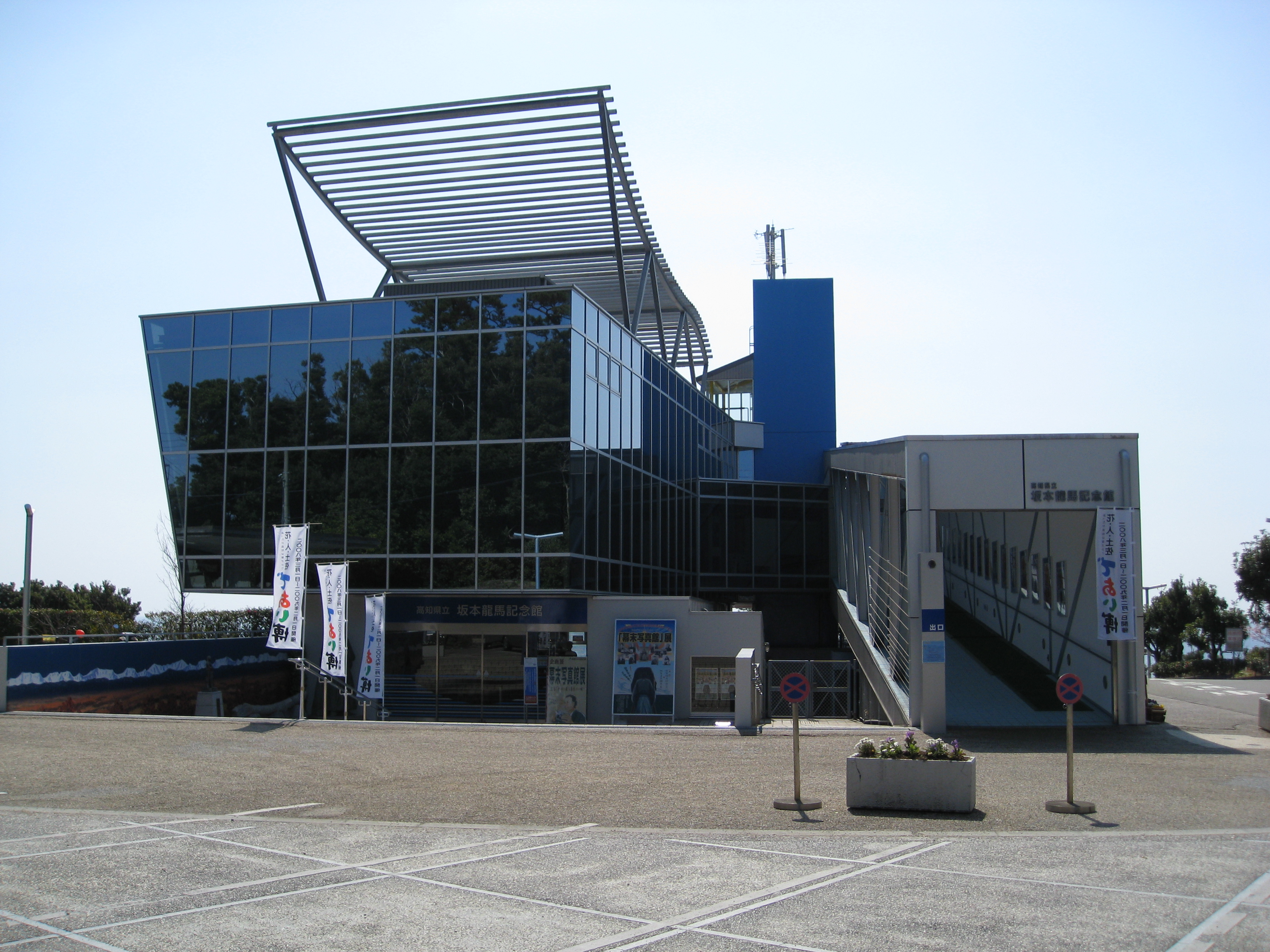 The Sakamoto Ryoma Memorial Museum (Kochi, Kochi, Japan)